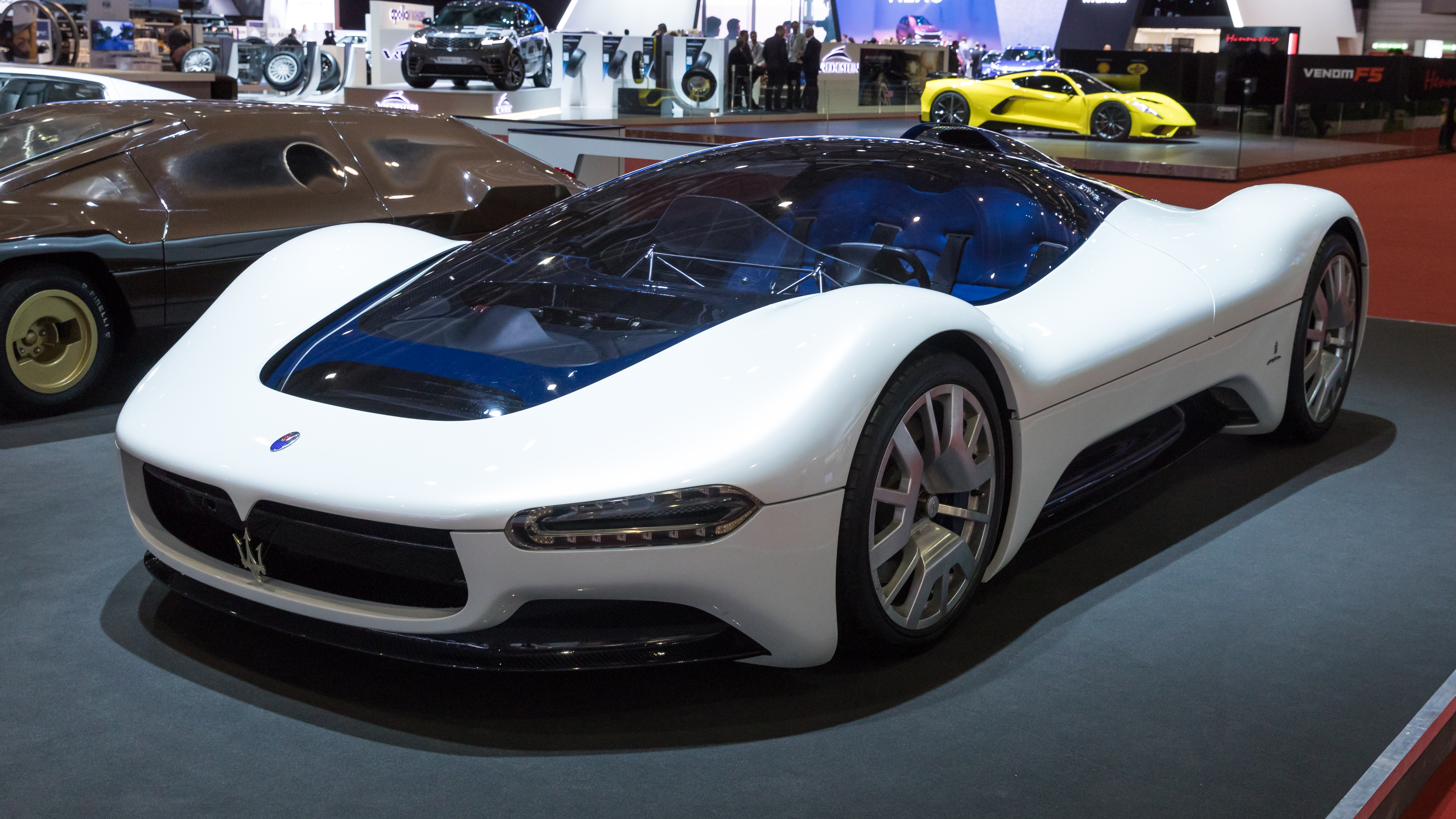 Geneva International Motor Show 2018